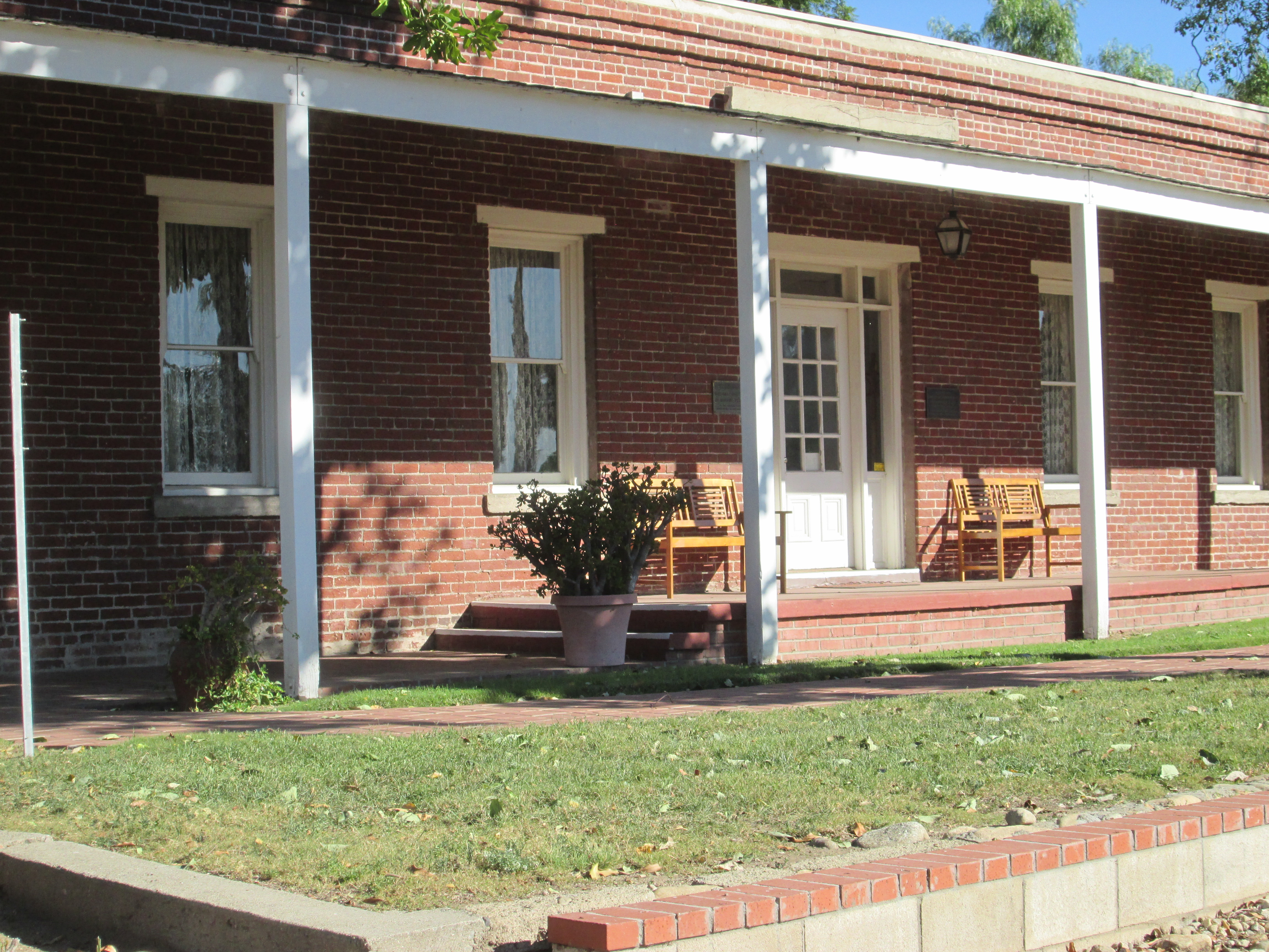 John Rains House entrance is now off Hemlock St Address is now 8810 Hemlock St